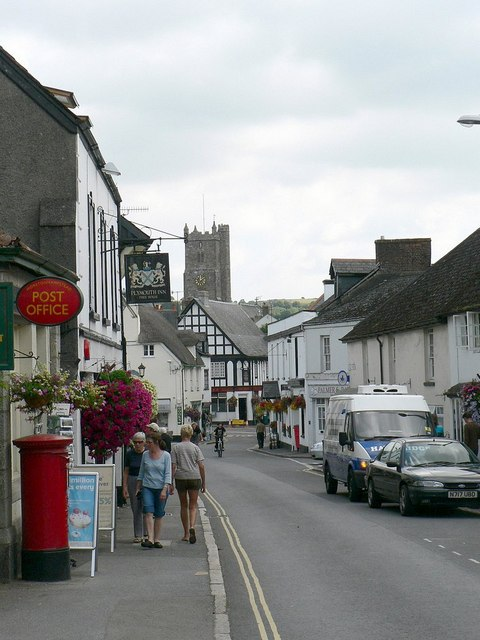 Court Street, Moretonhampstead.